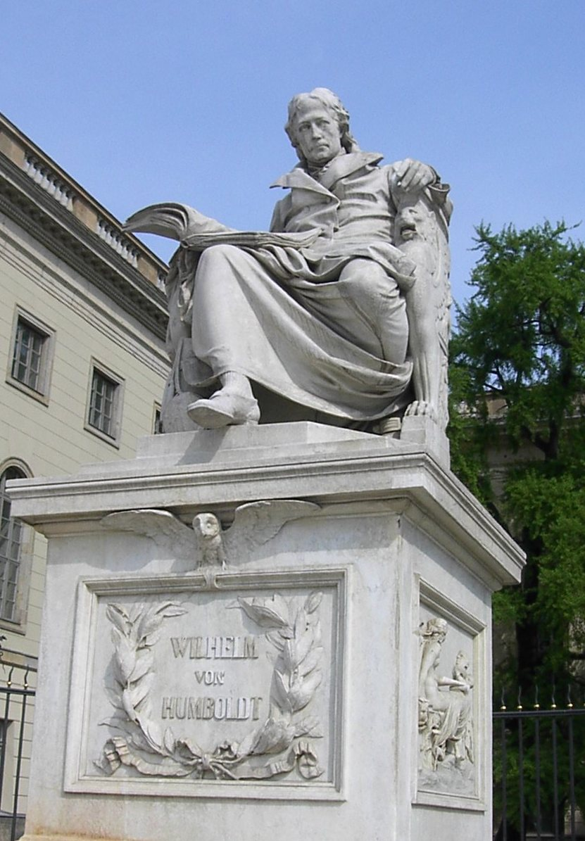 Statue of Wilhelm von Humboldt, Berlin